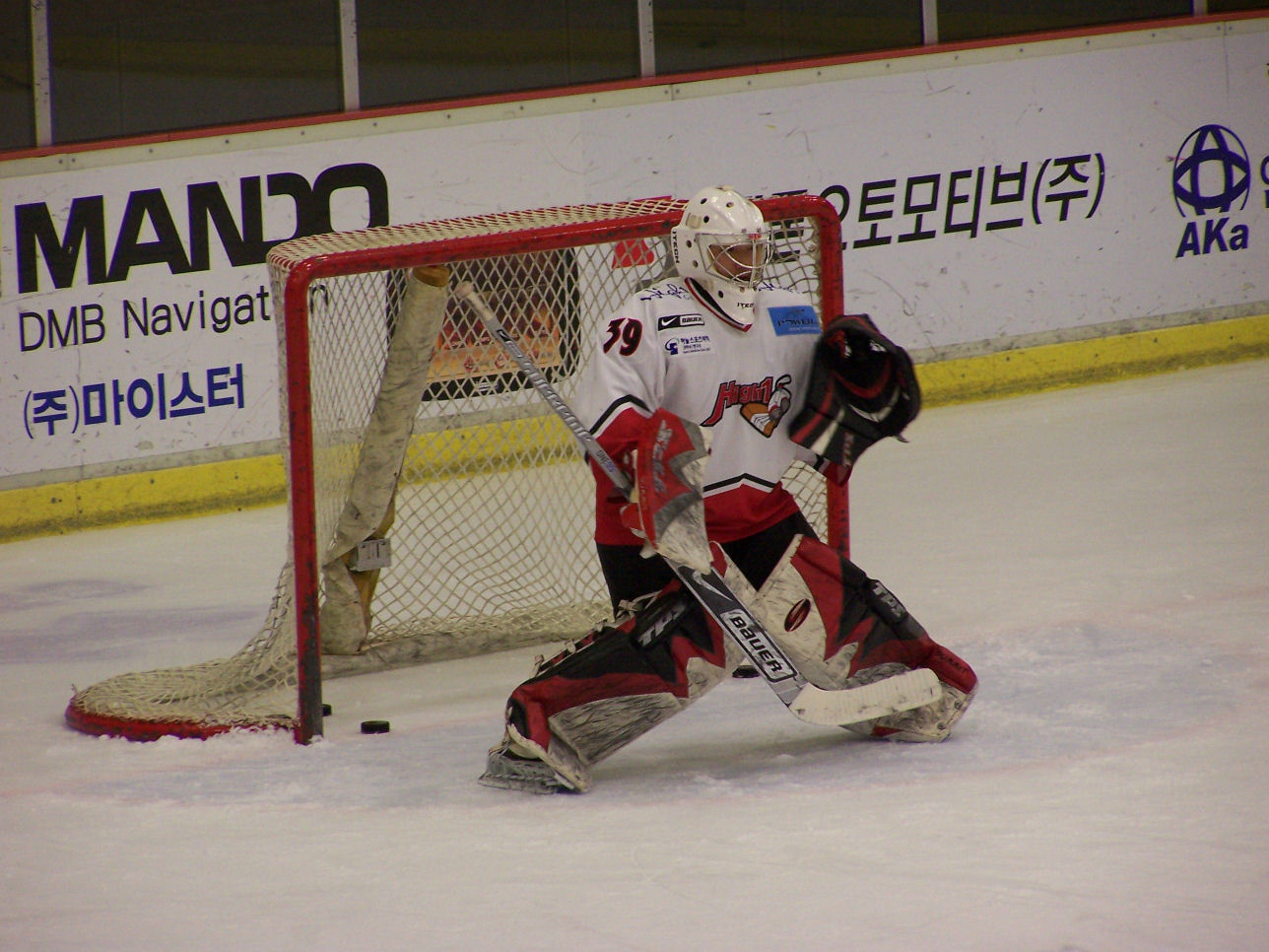 Hisashi Kanamaru, High1 goalie during warm-up wearing away jersey